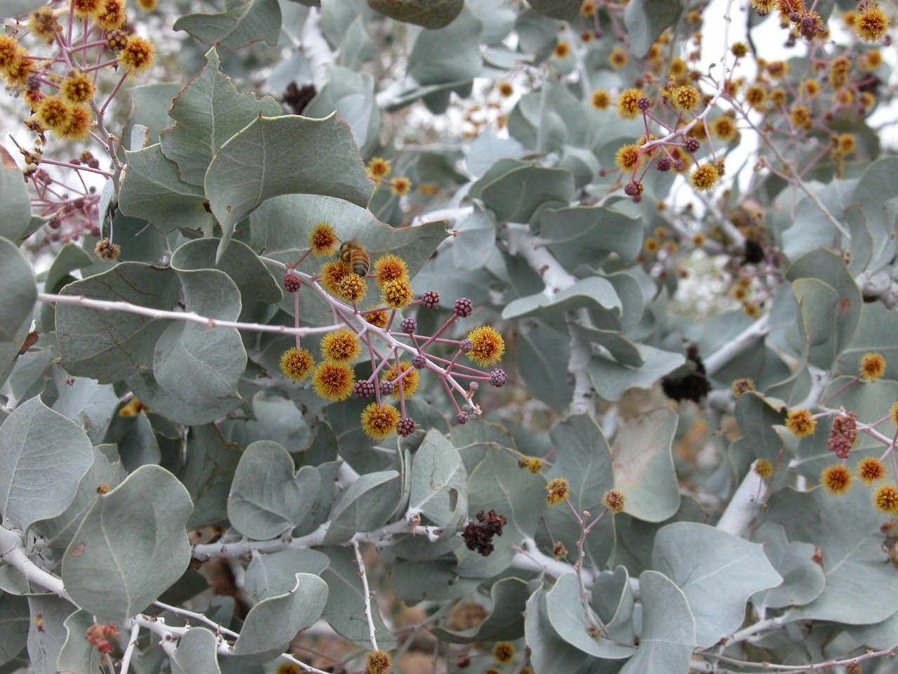 Photo taken by BoundaryRider on 22/05/2005